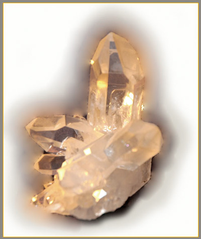 Quartz crystals. Druse. 9cm., Subpolar Ural, Russia